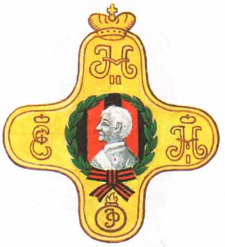 Badge of Fanagoryjsky 11-th Grenader Regiment